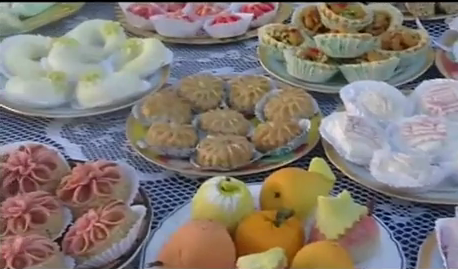 Algerian cakes Mostaganem